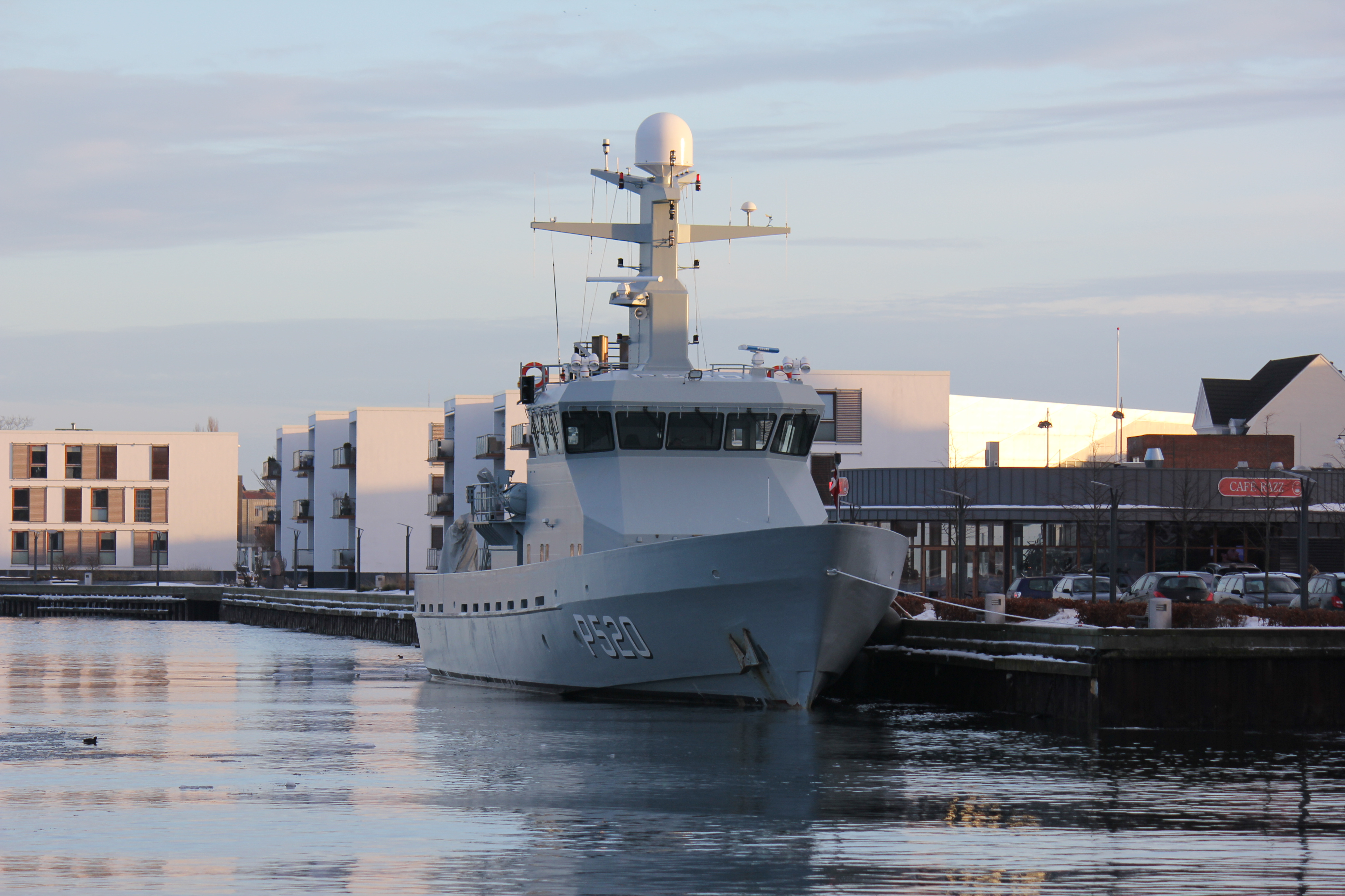 Royal Danish Naval vessel DIANA P520 in Middelfart, Denmark